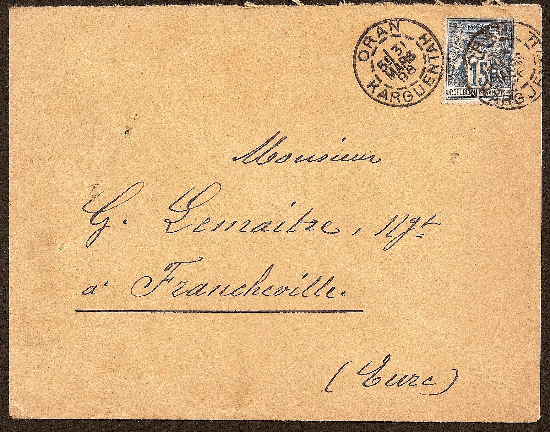 Cover franked with a French stamp and cancelled the 31st March 1896 at an Oran post office.